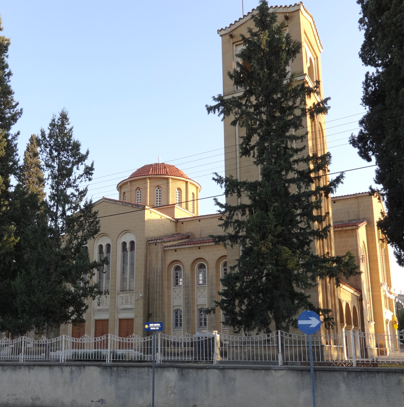 The church in the centre of the old village of Ayii Omoloyites, Nicosia. The village is now a neighbourhood of that city. The church is dedicated to the Holy Confessors Other information Photograph is taken from the north side of the church, in Andrea Miaouli Street, looking south. The image is intended to accompany an article about the old village of Ayii Omoloyites, Nicosia. The village is now a neighbourhood of that city. The church is dedicated to the Holy Confessors.